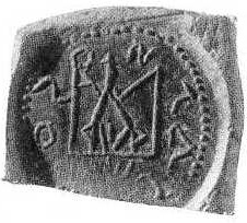 Izyaslav (Russian: Изяслав, Belarusian: Ізяслаў) was the son of Vladimir I of Kiev and Rogneda of Polotsk.